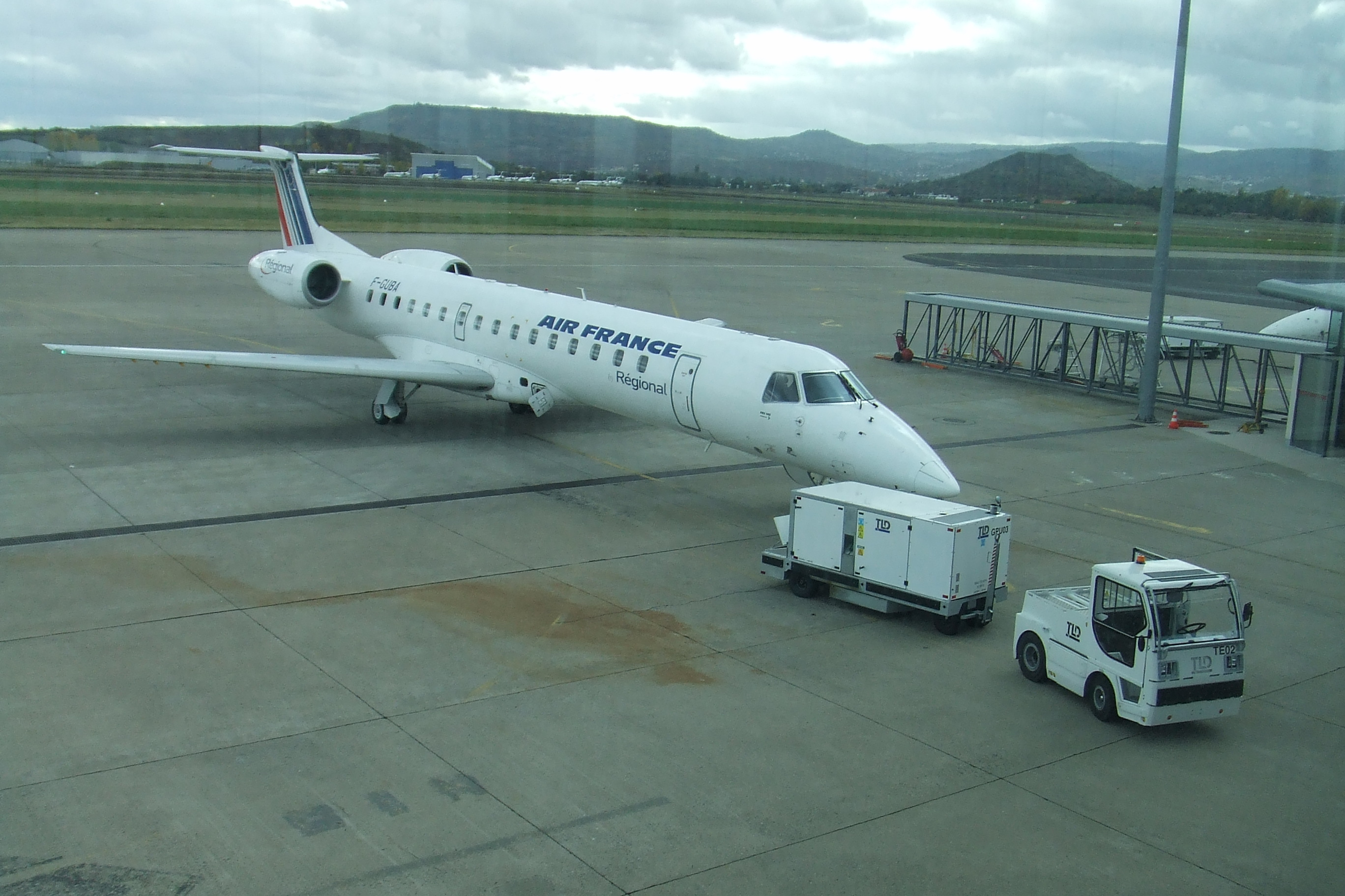 aircraft; registration F-GUBA; Air France (Regional Airlines); Embraer EMB-145MP (ERJ-145MP)